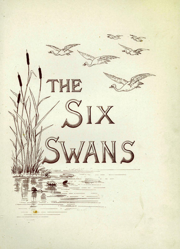 From Josephine Pollard's children's book Hours in Fairy Land: Enchanted Princess, White Rose and Red Rose, Six Swans (1883).